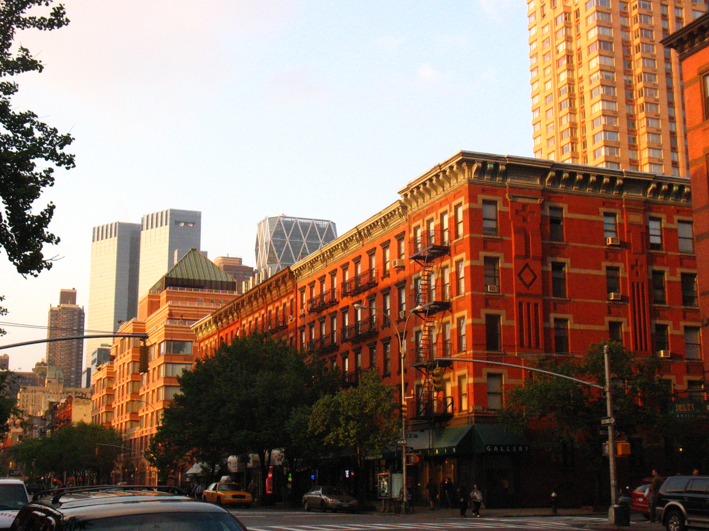 Looking north from between 47th and 48th street along Ninth Avenue with the Time Warner Center and the Hearst Building on the left.